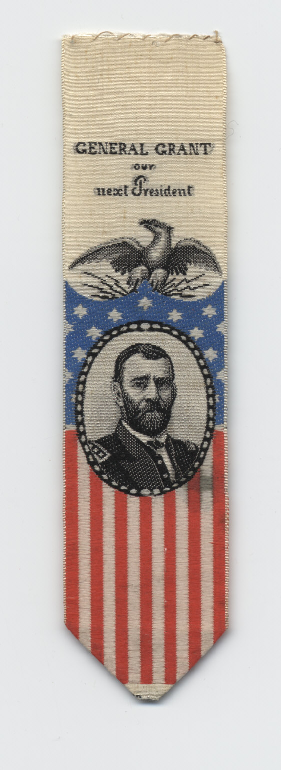 Collection: Cornell University Collection of Political Americana, Cornell University Library Repository: Susan H. Douglas Political Americana Collection, #2214 Rare & Manuscript Collections, Cornell University Library, Cornell University Title: "General Grant, Our Next President" Ribbon, ca. 1868 Political Party: Republican Election Year: 1868 Date Made: ca. 1868 Measurement: Ribbon: 4 1/2 x 1 1/8 in.; 11.43 x 2.8575 cm Classification: Costume Persistent URI: There are no known U.S. copyright restrictions on this image. The digital file is owned by the Cornell University Library which is making it freely available with the request that, when possible, the Library be credited as its source.